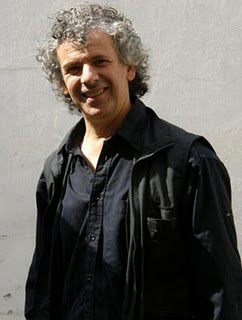 Ignazio Fresu, italian sculptor